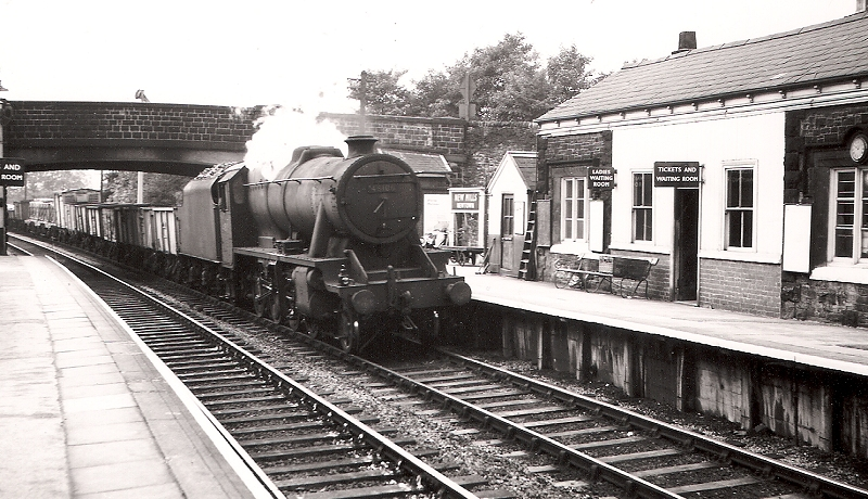 New Mills Newtown 48106 (8B Warrington) on Edgeley - Buxton shunter